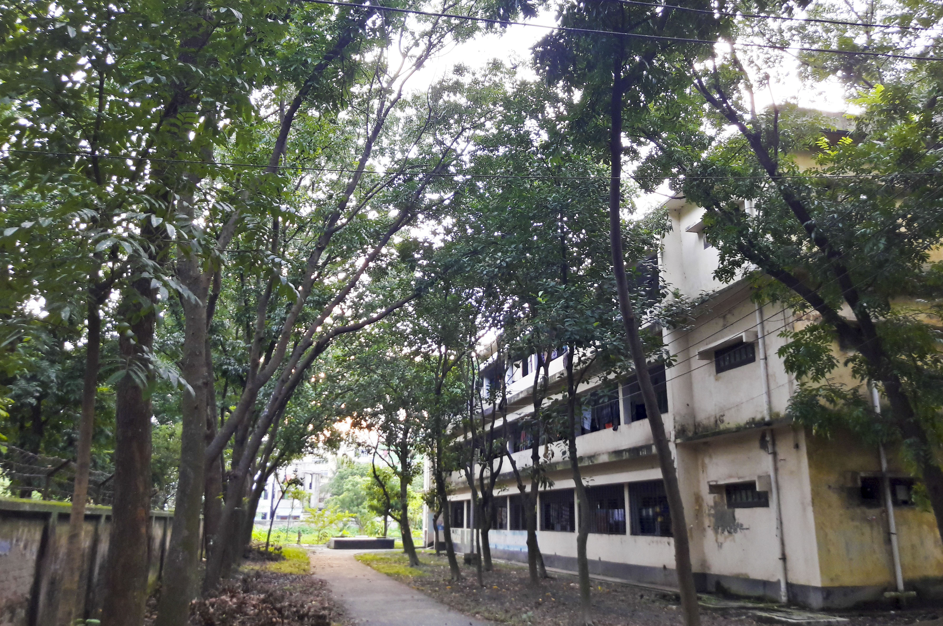 Institute of Health Technology, Rajshahi or short form I.H.T Rajshahi One of the Government Medical Institute in Rajshahi, Bangladesh.